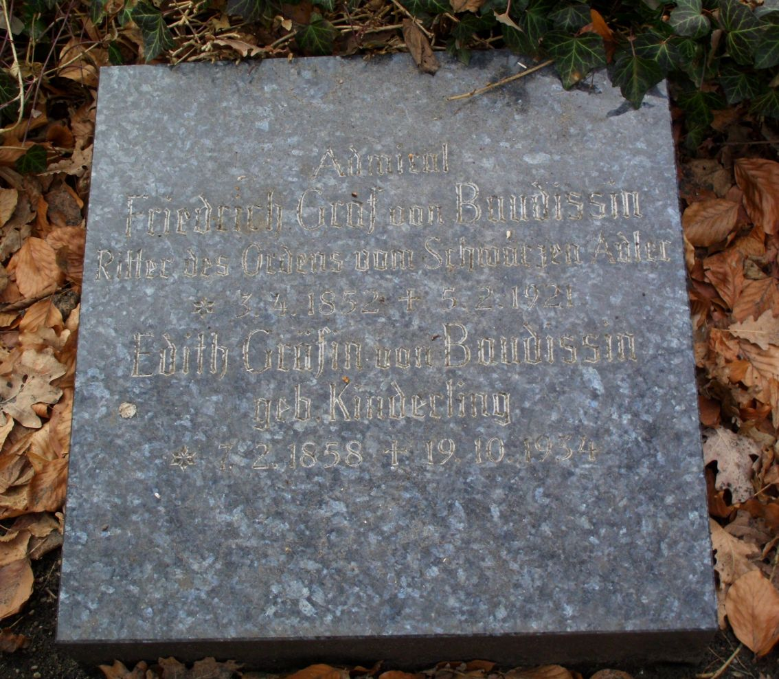 Grave of Friedrich and Edith von Baudissin